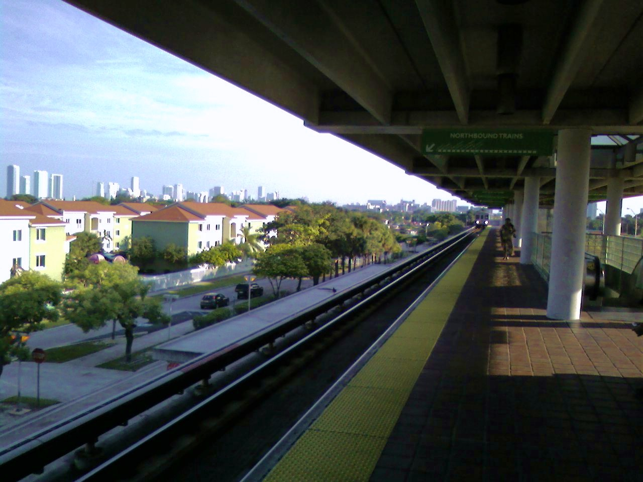 Northbound train approaching Allapattah (Metrorail station)